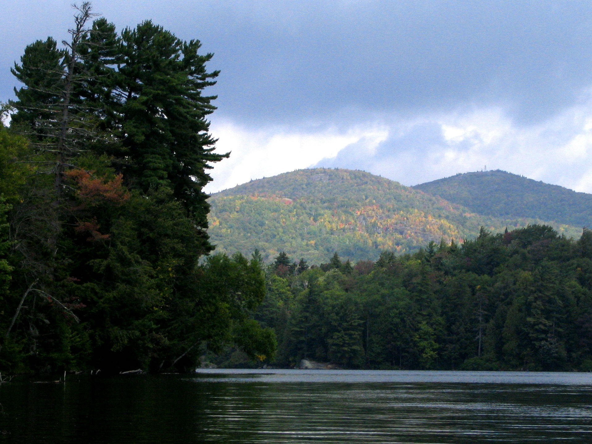 Saint Regis Mountain from Saint Regis Pond. Taken by User:Mwanner, 8 September, 2007.